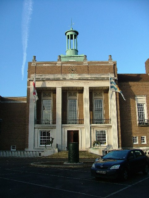 County Hall Hertford. This is the front entrance of County Hall Hertford. To each side of the door there are life-size bronze harts.